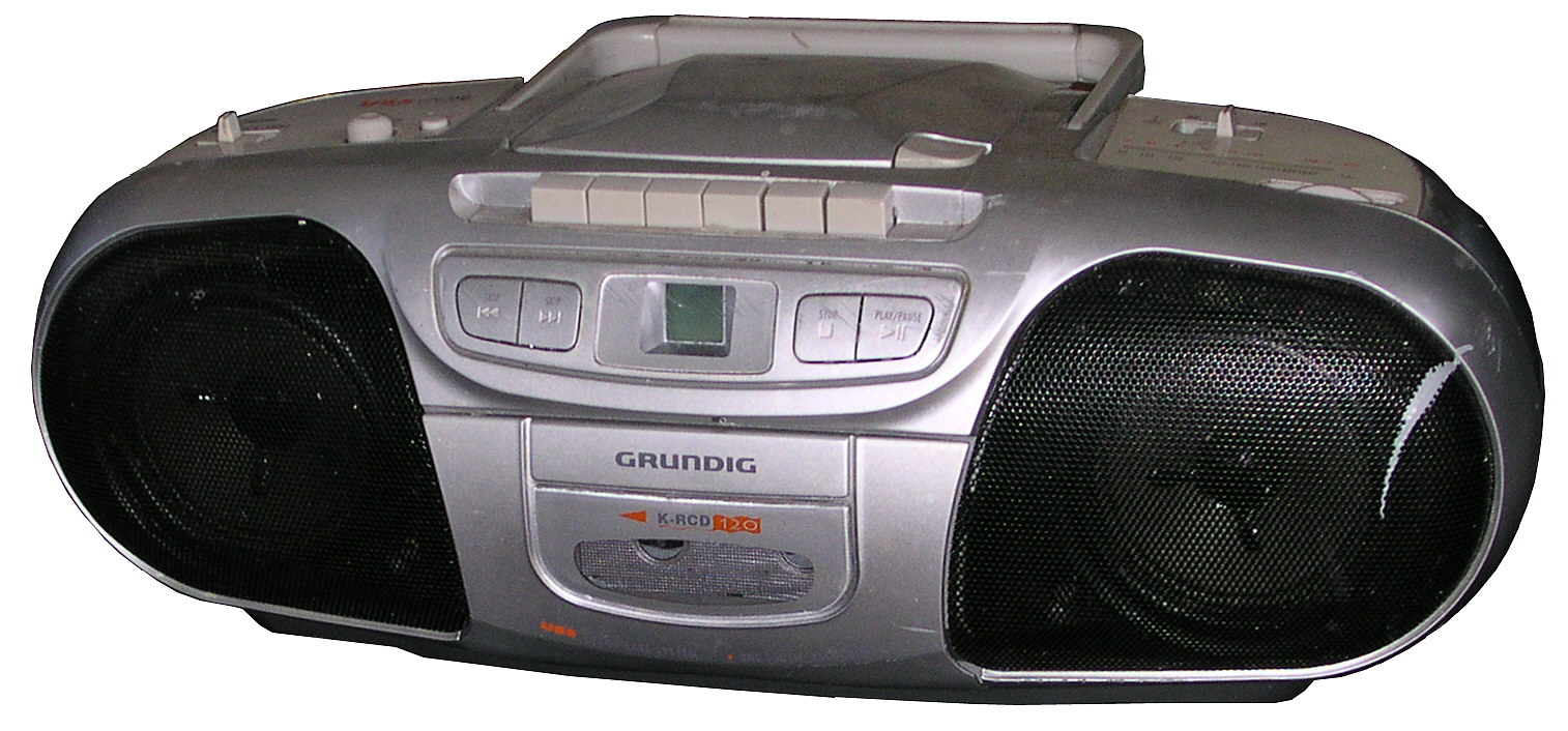 Grundig K-RCD 120